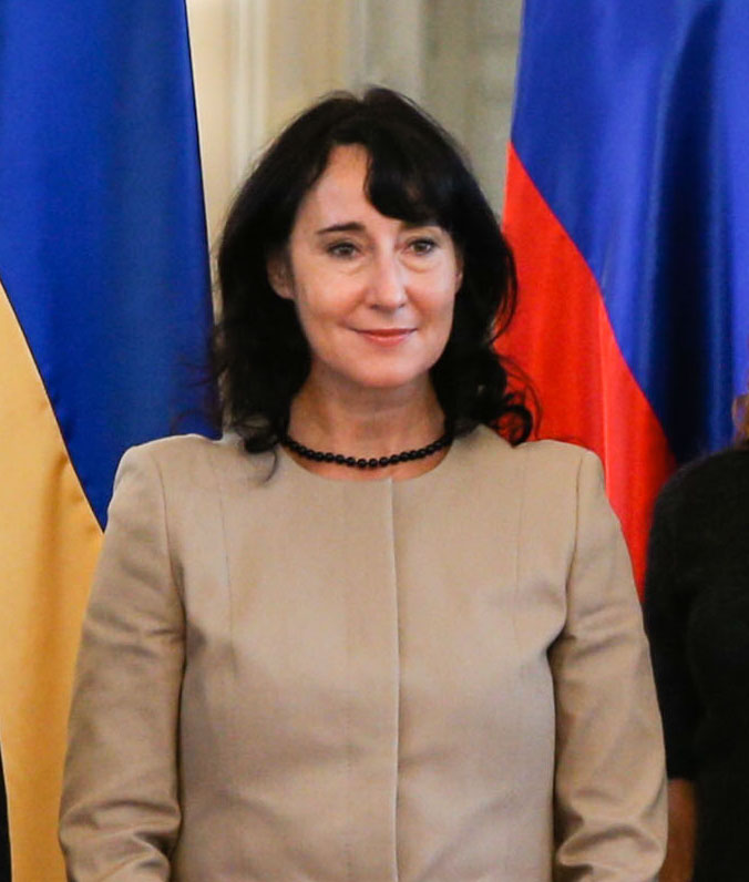 Slovenia First Lady Tanja Pečar during a visit to Slovenia by Ukrainian President Petro Poroshenko and First Lady of Ukraine Maryna Poroshenko.